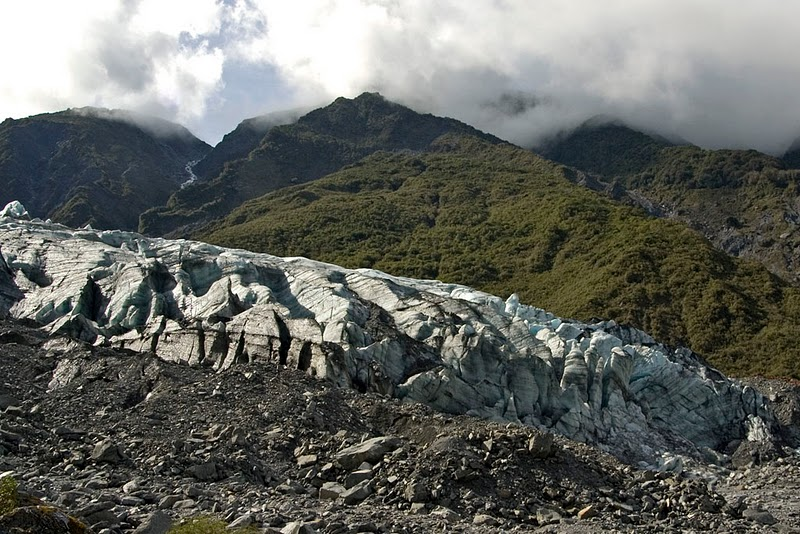 Fox Glacier and rain forest on the west coast of New Zealand's South Island.